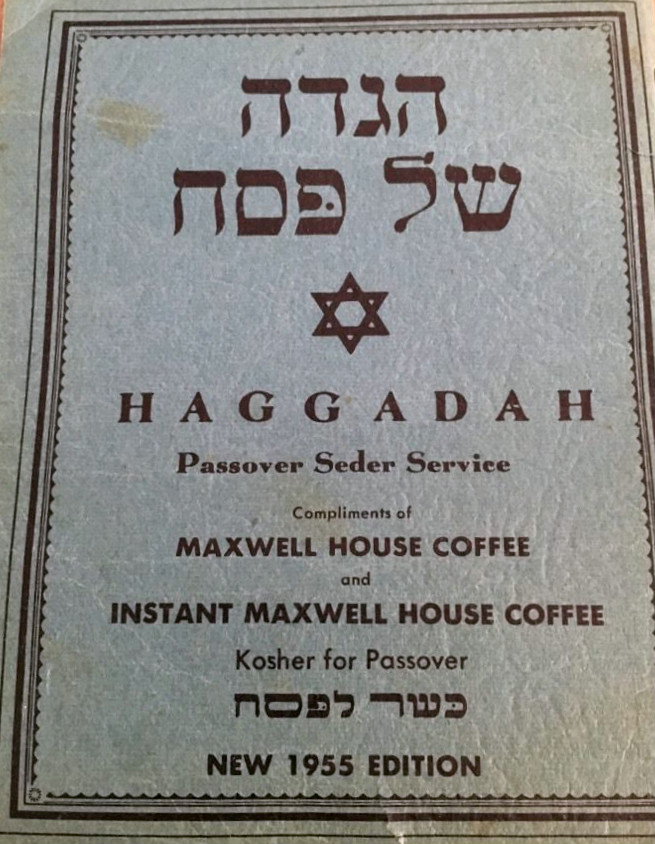 Front cover of a 1955 Maxwell House Haggadah.